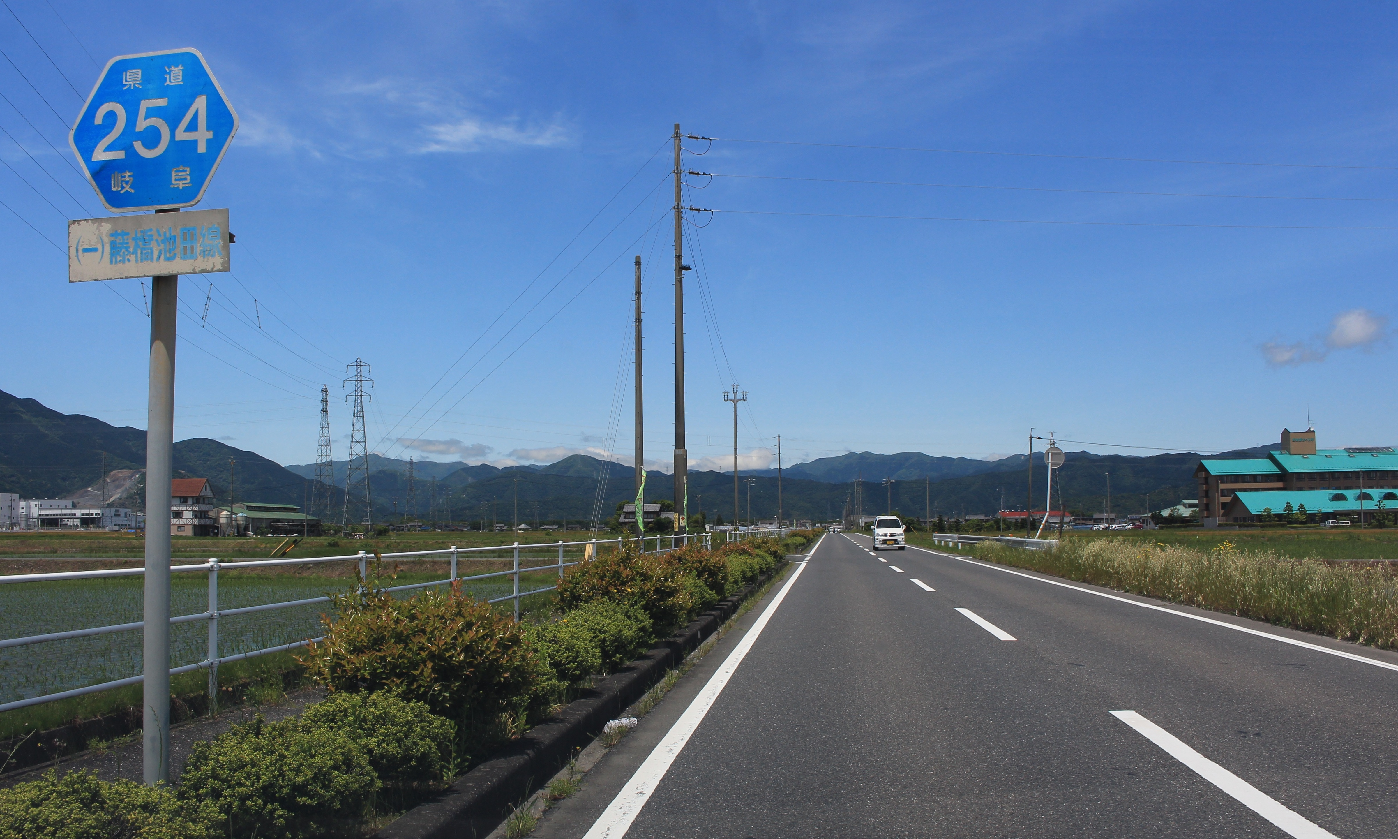 Gifu Prefectural Road Route 254 in Ikeda, Gifu prefecture, Japan.